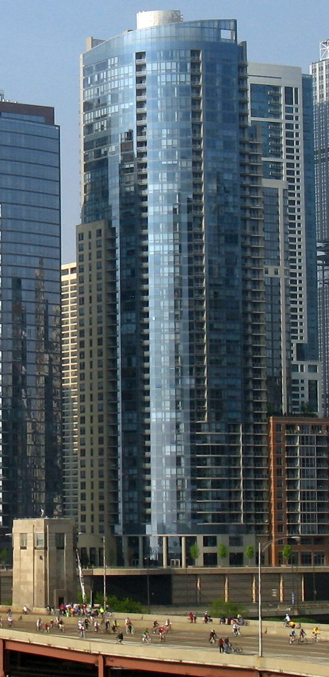 The Regatta (420 E Waterside Drive, Chicago, IL). Image was taken during Bike The Drive", when Lake Shore Drive is closed to motor traffic and reserved for bicycles.